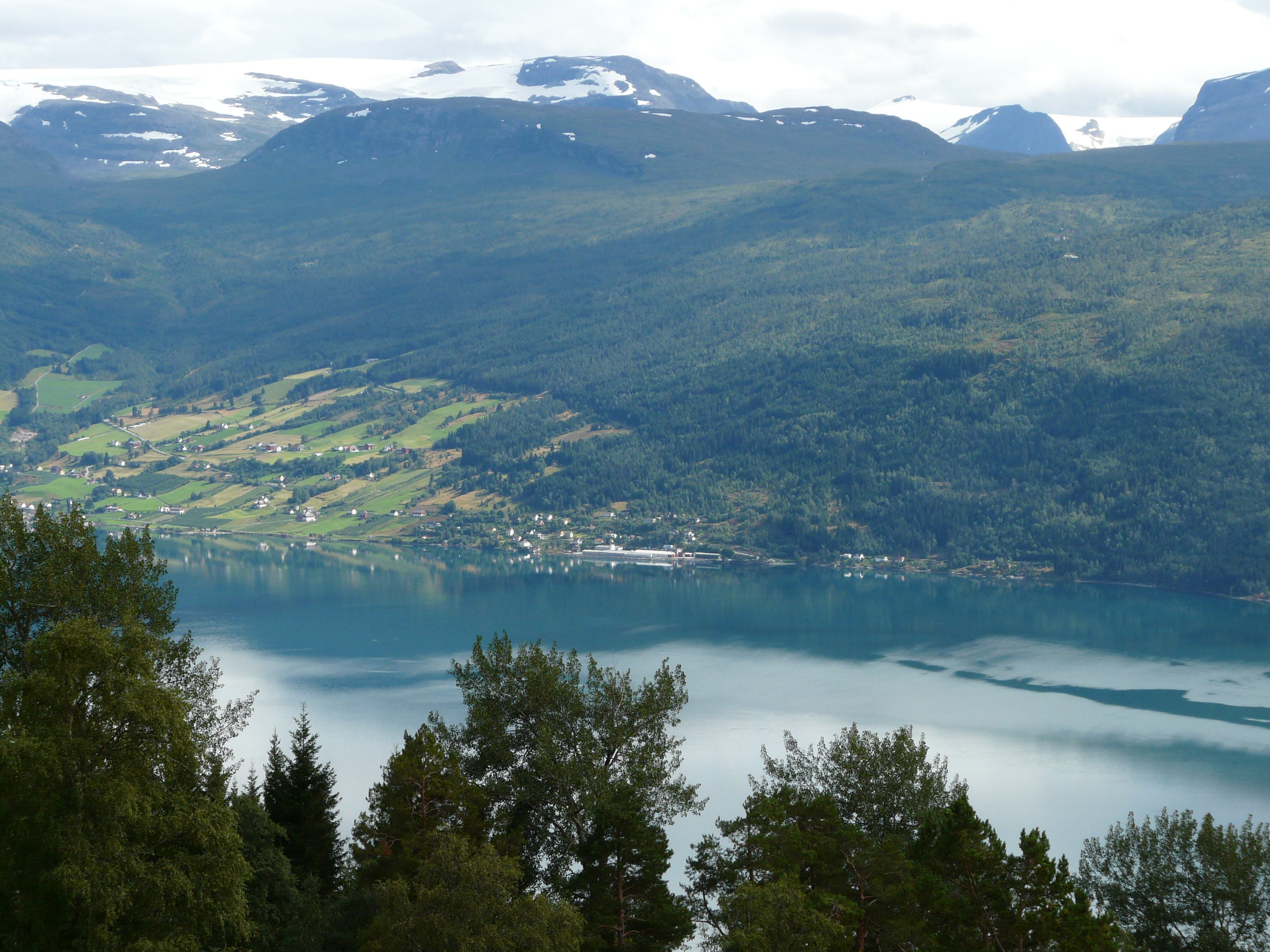 Utvik, Stryn